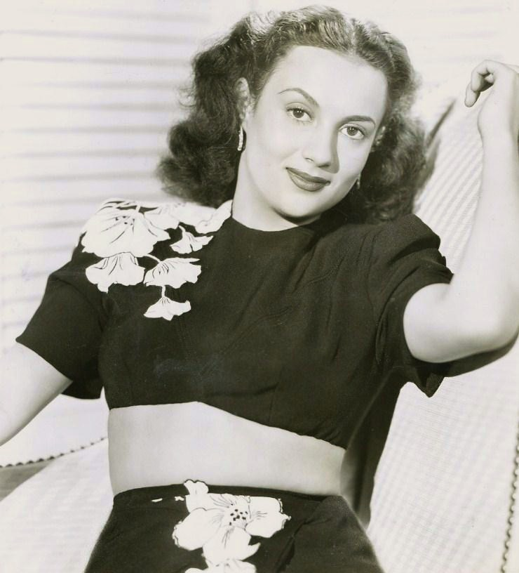 María Elena Marqués in Across the Wide Missouri (1951) - publicity still (original image damaged, modified and cropped : see source)